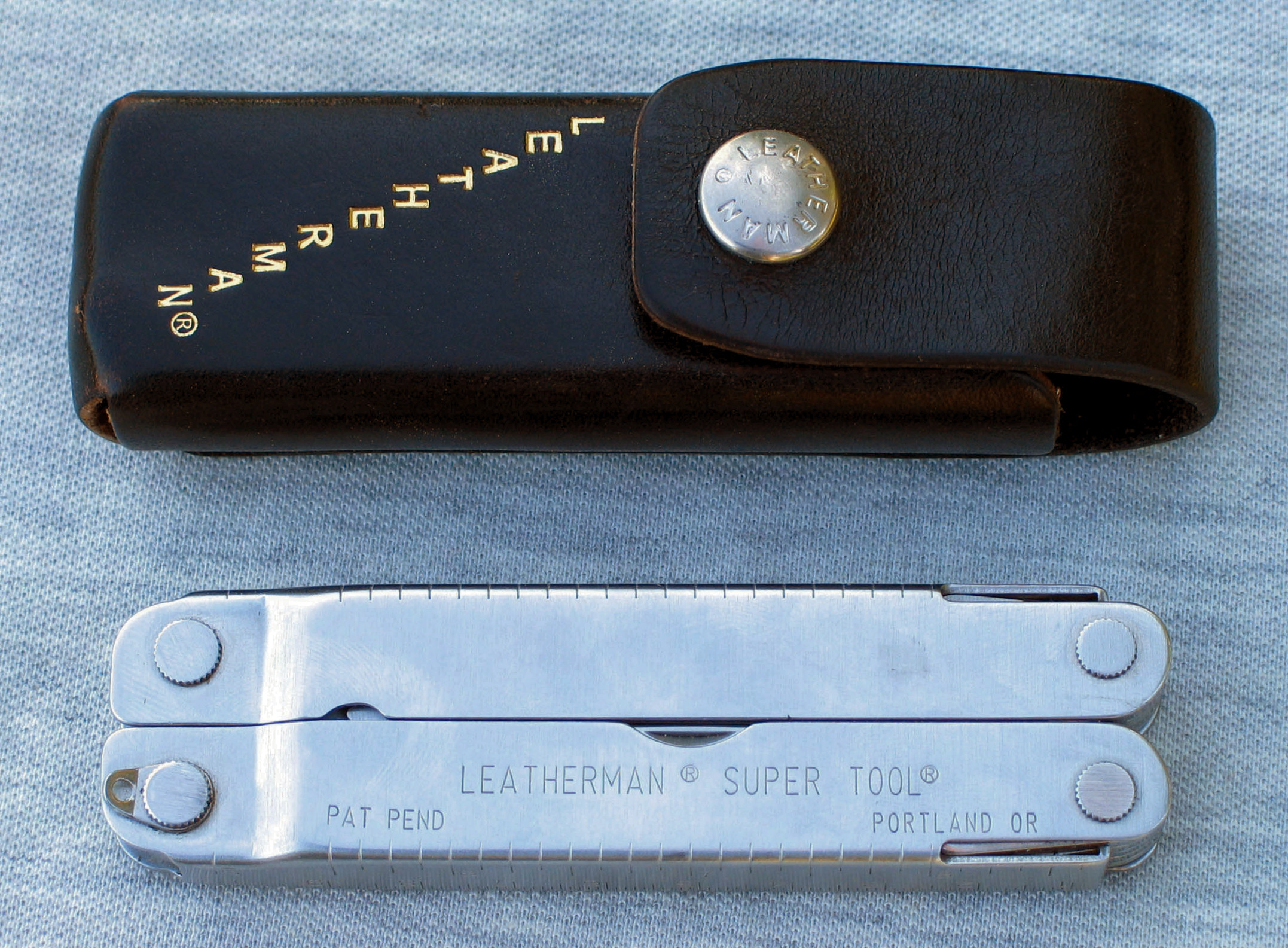 Leatherman and beltholder, photo taken in Sweden